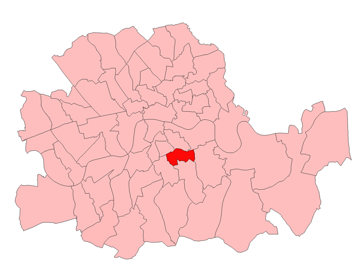 A map of Camberwell North constituency in the London County Council area, as it existed from 1918 to 1949.